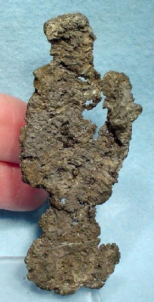 Lead Locality: Långban, Filipstad, Värmland, Sweden (Locality at ) Size: 8.0 x 3.1 x 1.0 cm. Native lead in any form is extremely rare. This OLD, CLASSIC and SCULPTURAL specimen is from the most famous locality for lead crystals - Langban, Sweden. Subhedral crystals abound on this fine, large specimen from the John Ydren Collection.